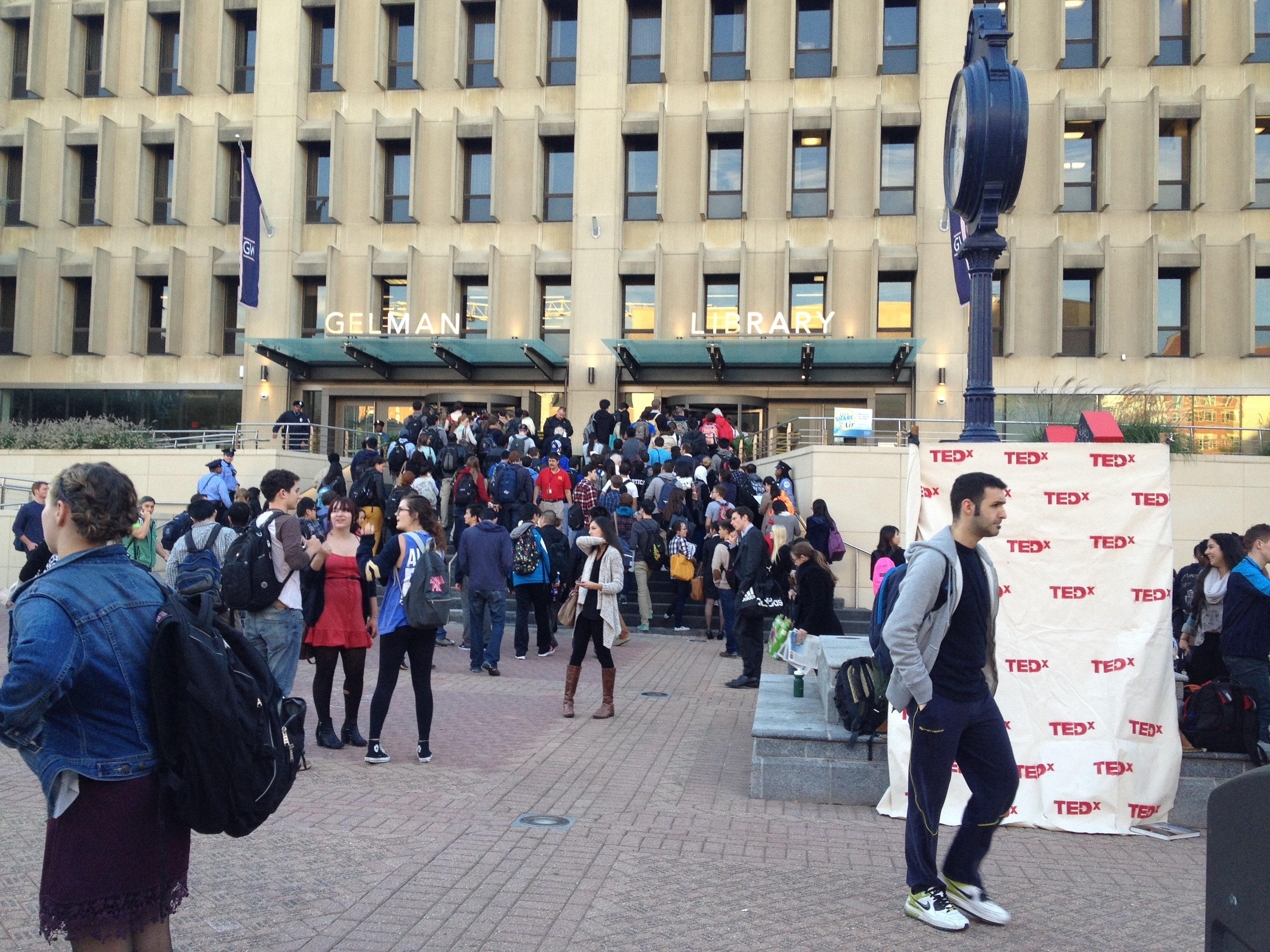 Kogan Plaza, outside the Gelman Library of the George Washington University. Signs are visible for a TedX Foggy Bottom event.